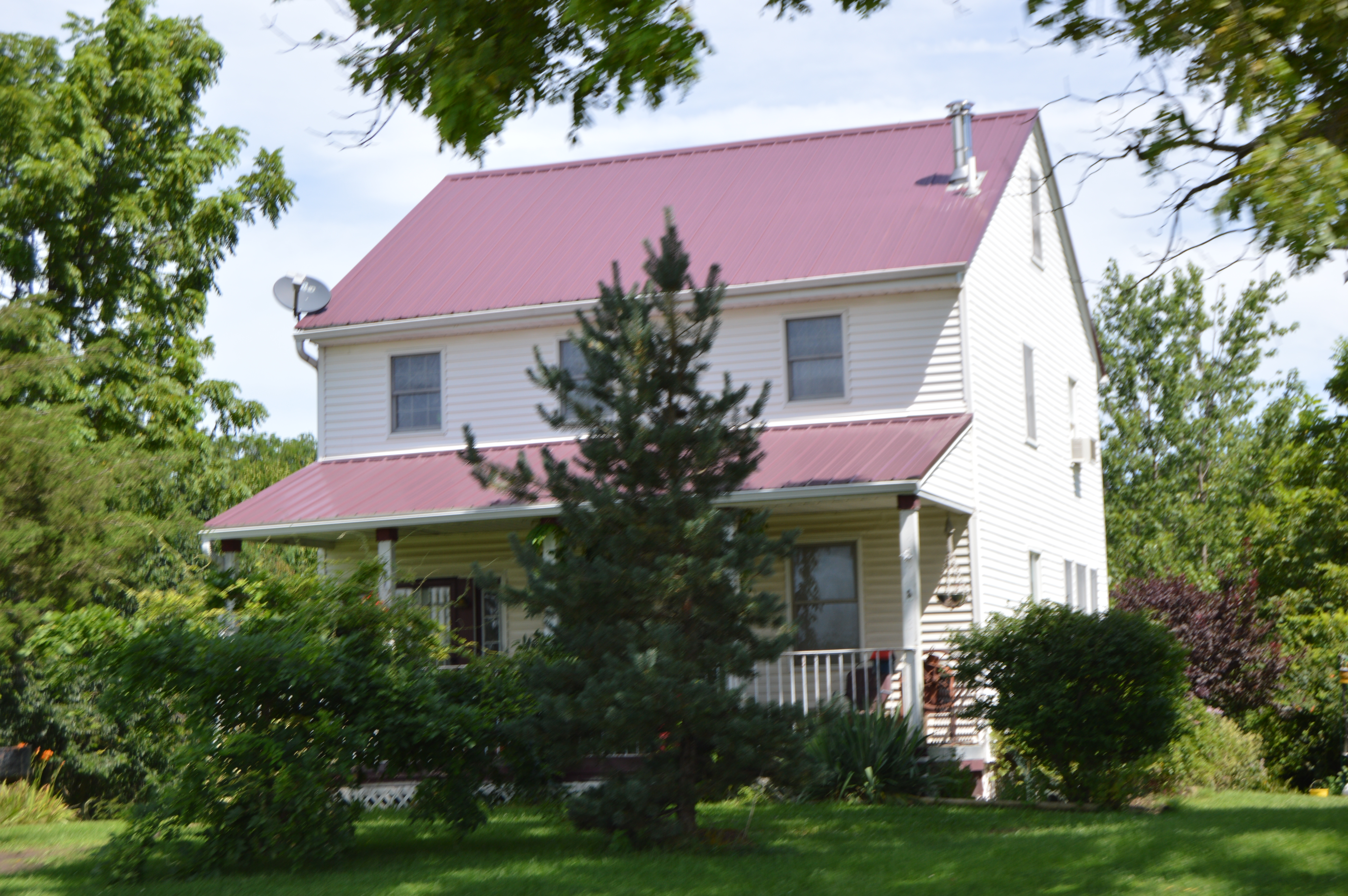 Eastern side and front of the Sickles Tavern (now a farmhouse), located on Route C in extreme western Des Moines Township, Clark County, Missouri, United States. Built in 1846, it is listed on the National Register of Historic Places.